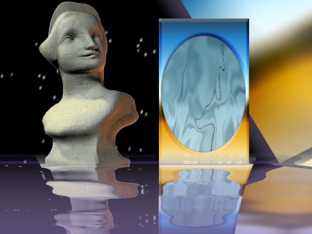 A small photo showing several different scene elements shaded using HLSL. The statue is distorted physically based on location. The inner door texture is distorted physically based on color intensity. The background square is transformed and rotated algorithmically and the water ripple reflecting the entire scene is also a shader.